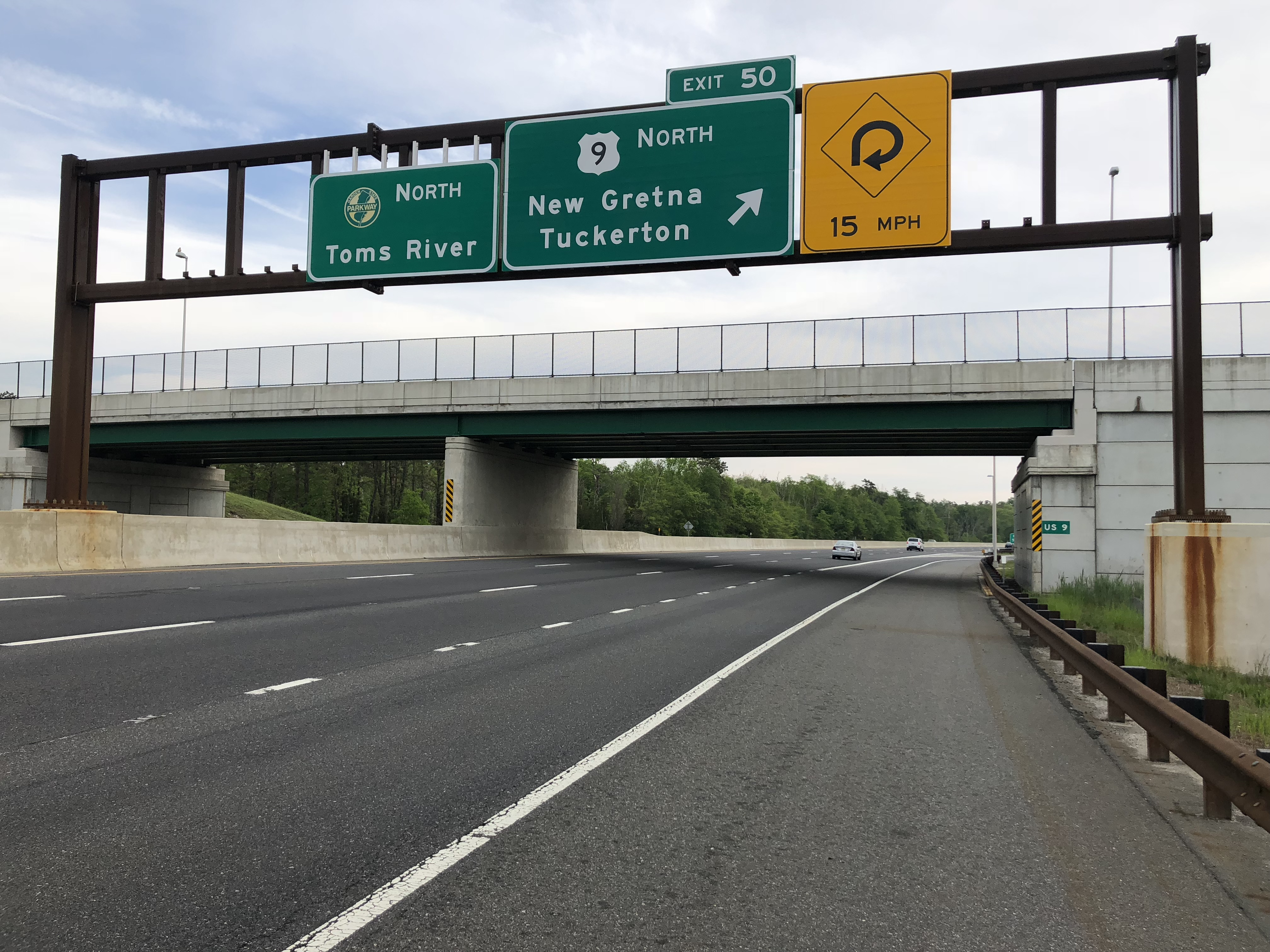 View north along U.S. Route 9 and New Jersey State Route 444 (Garden State Parkway) at Exit 50 (U.S. Route 9 NORTH, New Gretna, Tuckerton) in Bass River Township, Burlington County, New Jersey